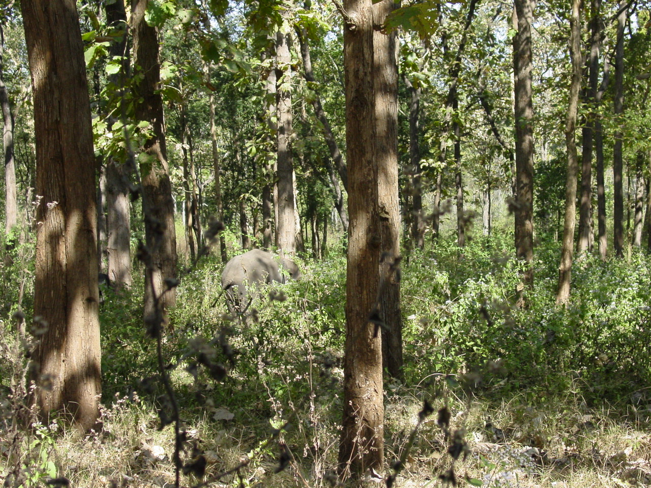 This picture of an elephant was taken by me in December 2004 on the road from Mysore to Kalpetta in the Wayanad District (Kerala). --BostonMA 01:55, 21 January 2006 (UTC)